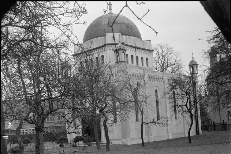 Mosques in Great Britain- Islamic Architecture in the UK, c 1945 An exterior view of the Fazl Mosque in Southfields, London, looking through the trees. The original caption states that it was built by the Ahmadiyya Movement of Qadian, in the Byzantine style. It was opened by Sir Abdul Qadir in October 1926, and the interior is 43 feet by 26 feet.